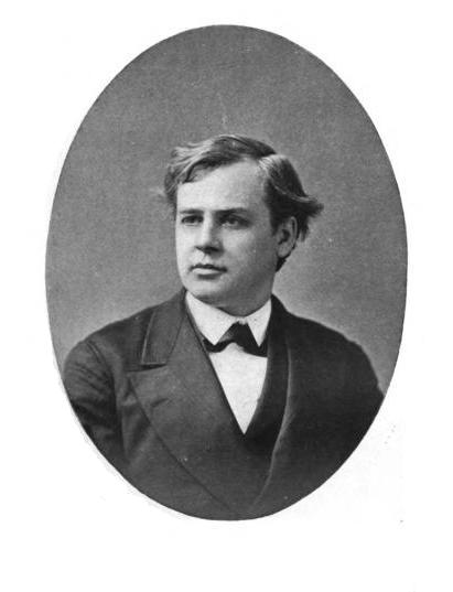 Adoniram Judson Gordon (1836–1895) an American Baptist preacher, writer, composer, and founder of colleges.